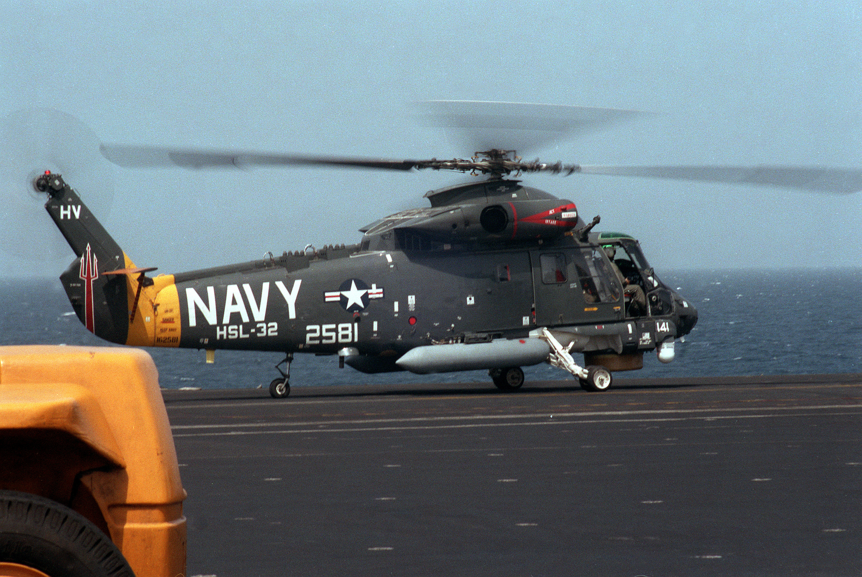 A U.S. Navy Kaman SH-2F Seasprite helicopter (BuNo 162581) of Light Helicopter Anti-Submarine Squadron 32 (HSL-32) prepares to take off from the flight deck of the aircraft carrier USS Theodore Roosevelt (CVN-71) during exercise Team Work '88.